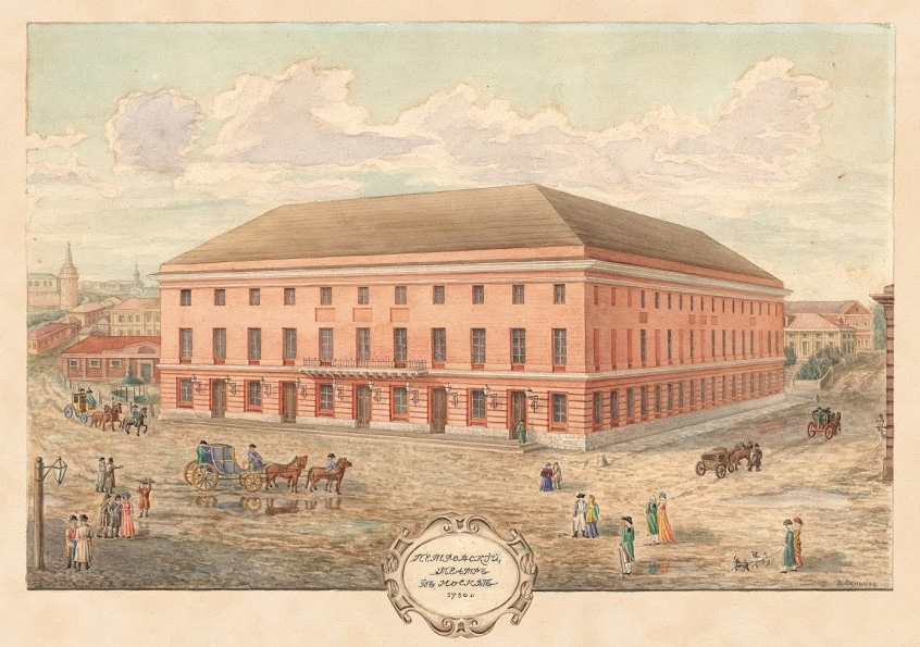 Petrovka Theatre in Moscow